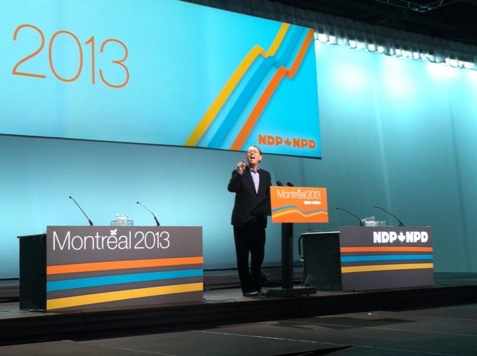 Murray Rankin Speaks at 2013 NDP Convention in Montreal (April 13, 2013)